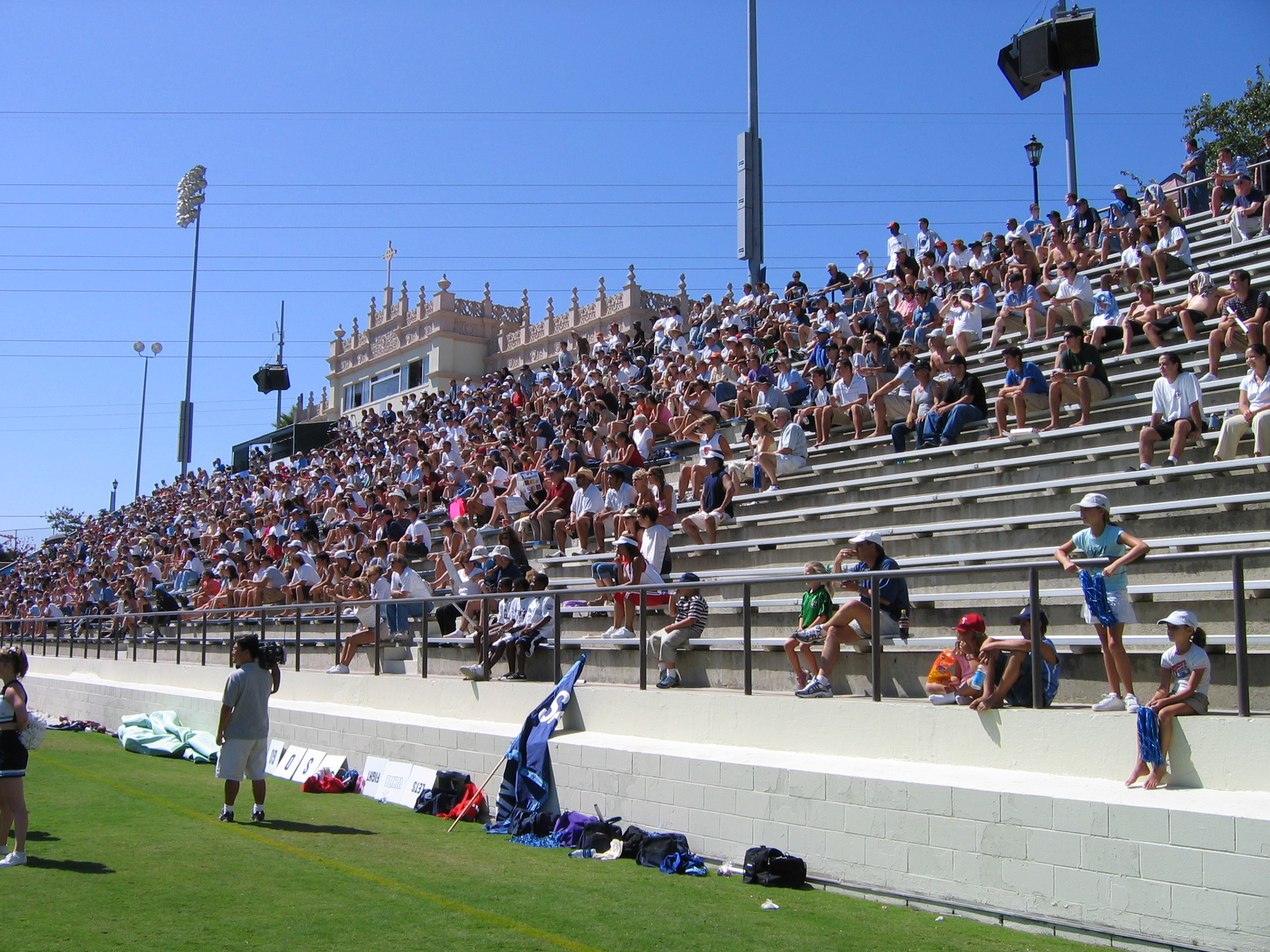 Torero Stadium 2005.